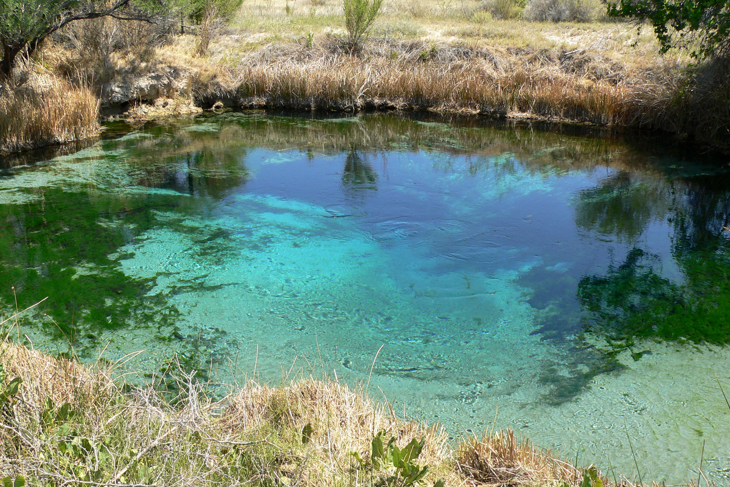 Crystal Spring, Ash Meadows National Wildlife Refuge, southern Nevada.